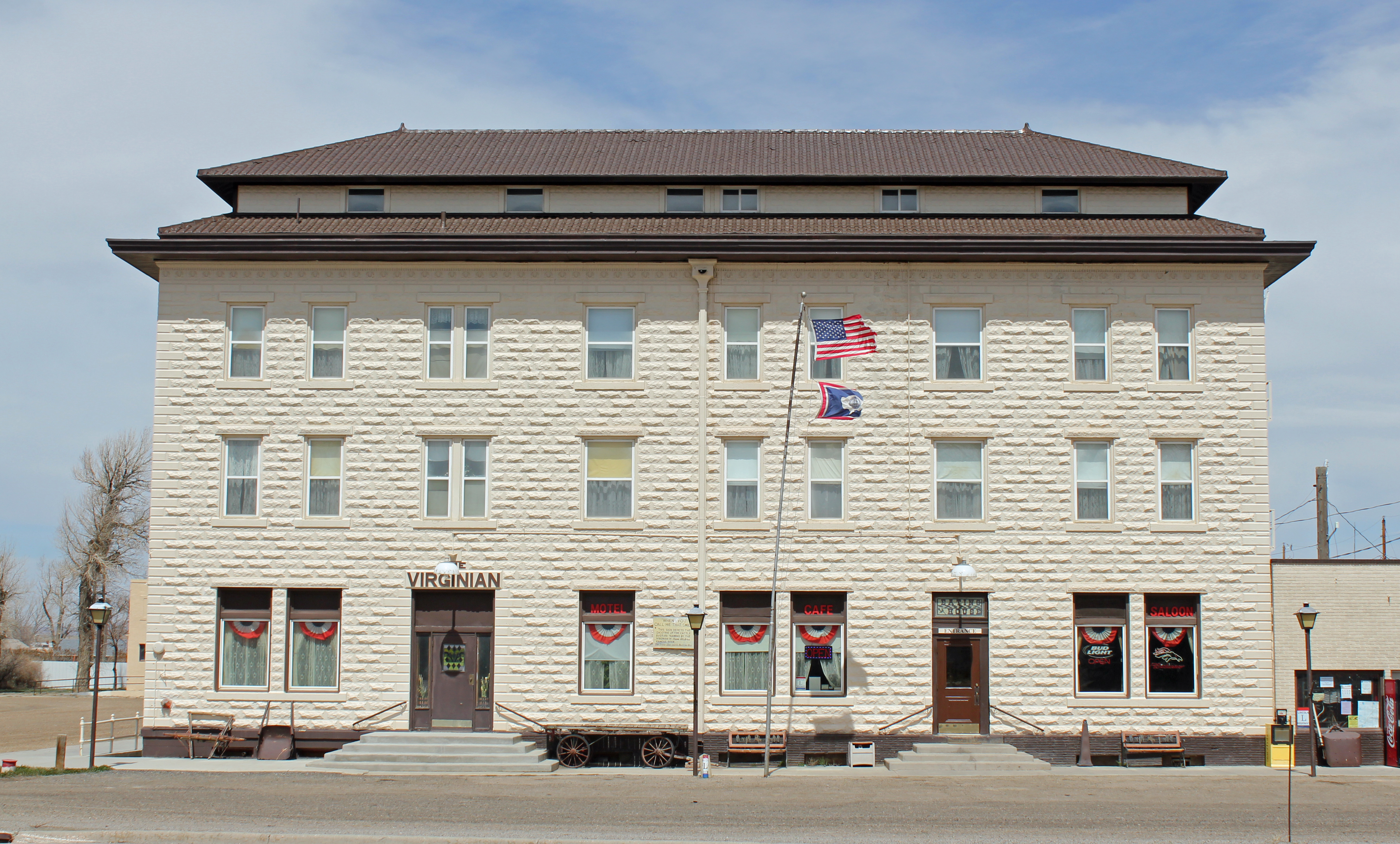 The Virginian Hotel in Medicine Bow, Wyoming. The property is listed on the National Register of Historic Places. 48CR1196